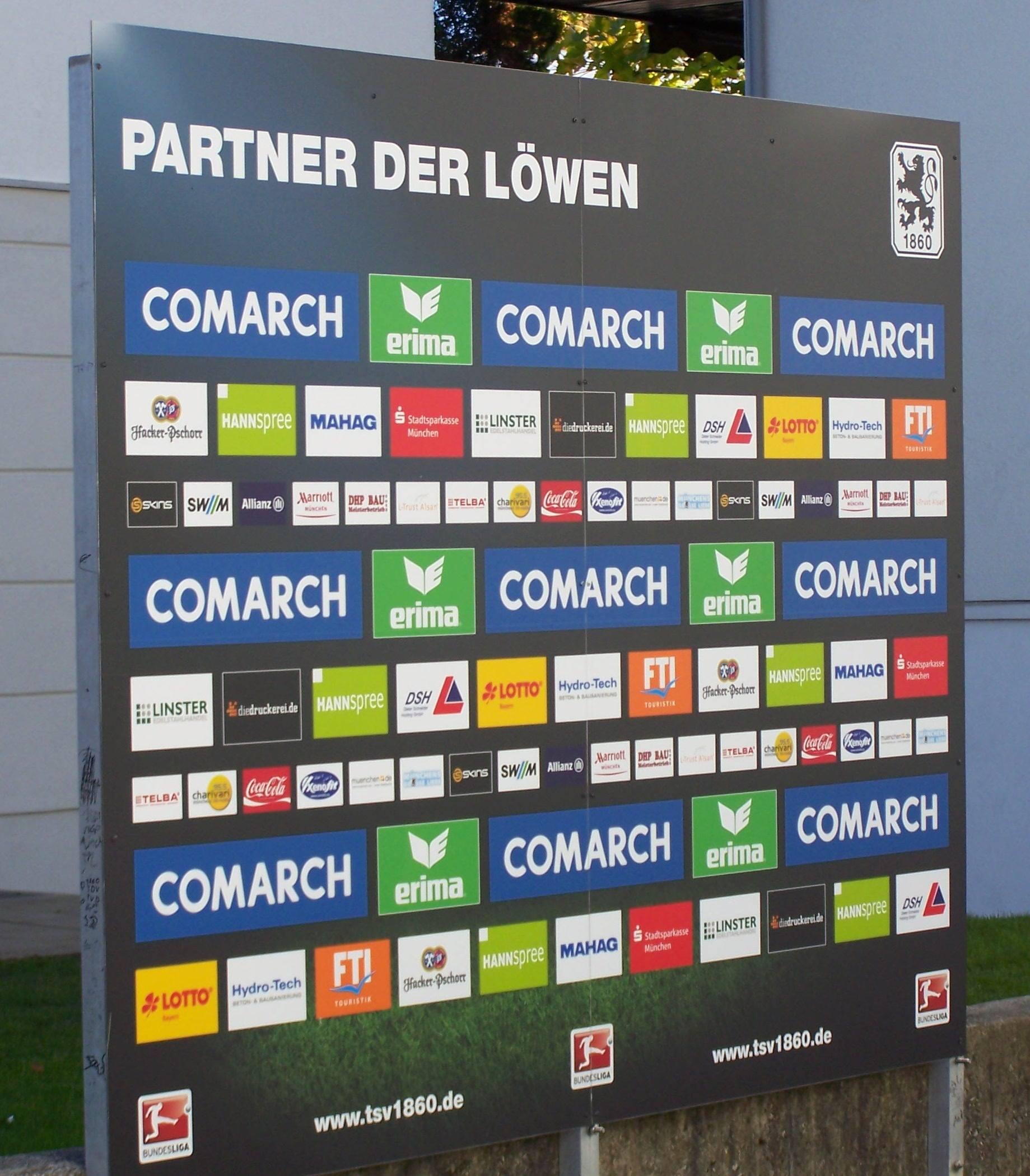 sponsors of tsv 1860 münchen